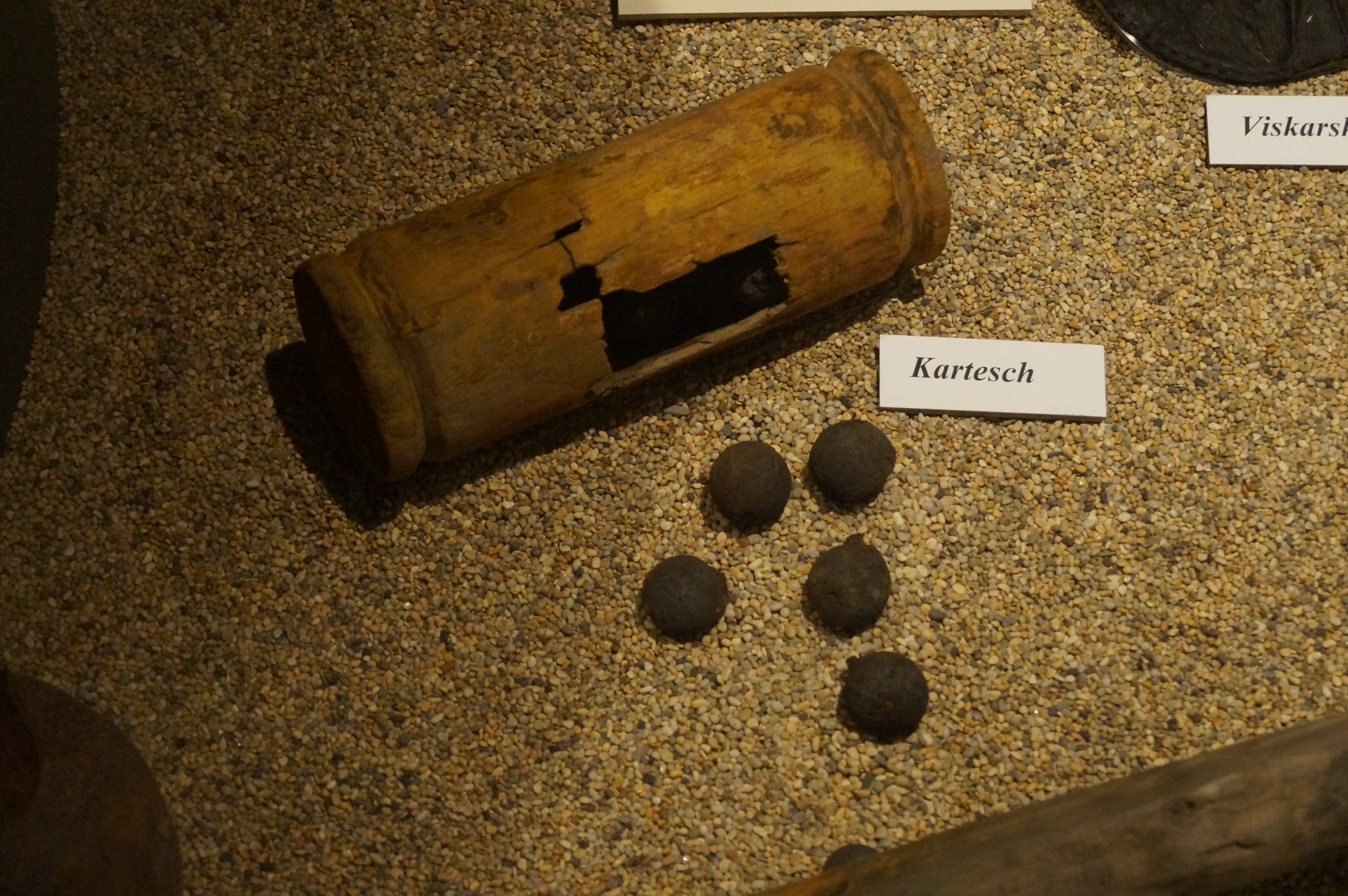 A canister shot salvaged from Kronan (ship), exhibited at Kalmar läns Museum.